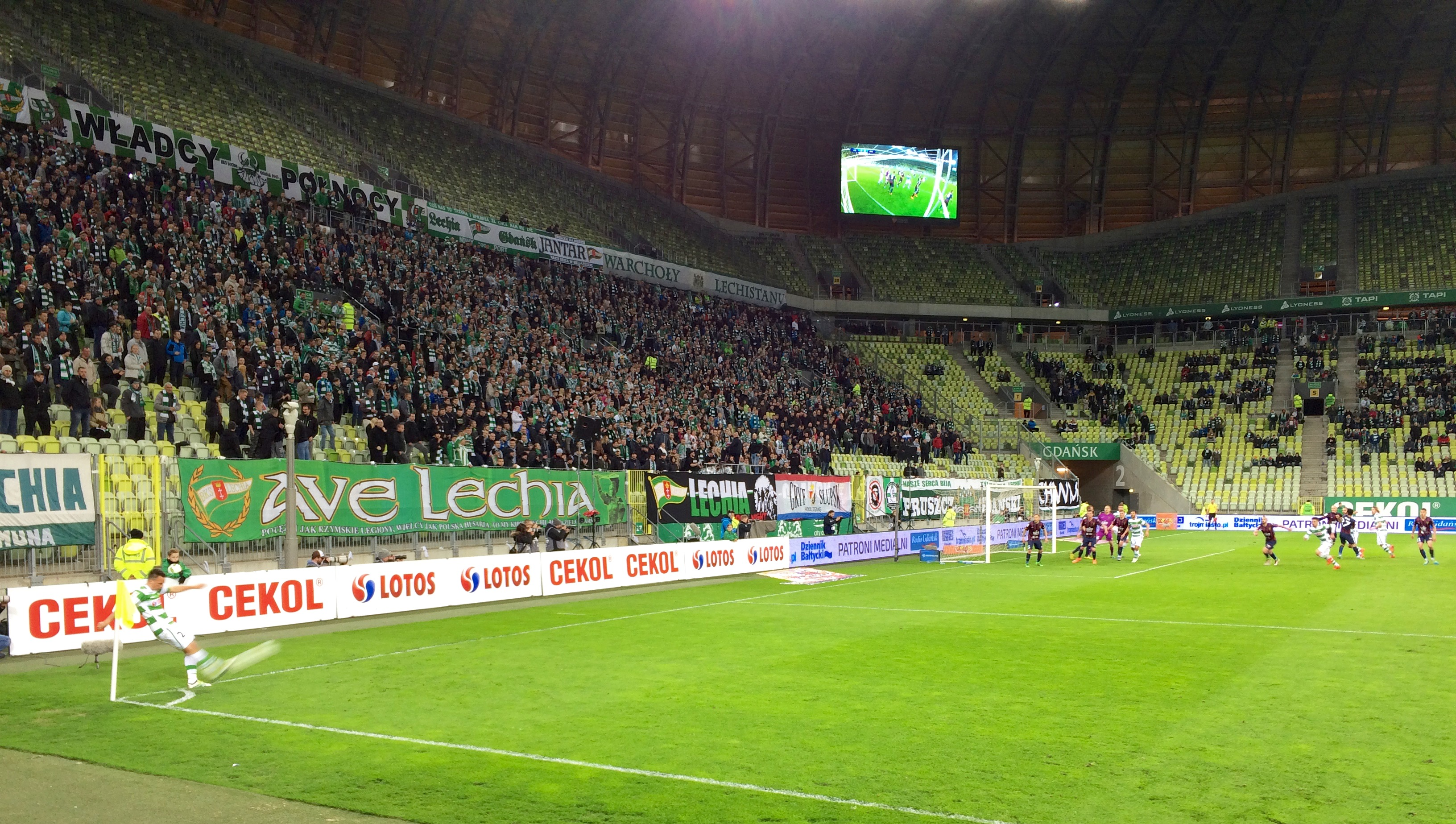 Stadion Energa Gdańsk during Lechia Gdańsk football game.